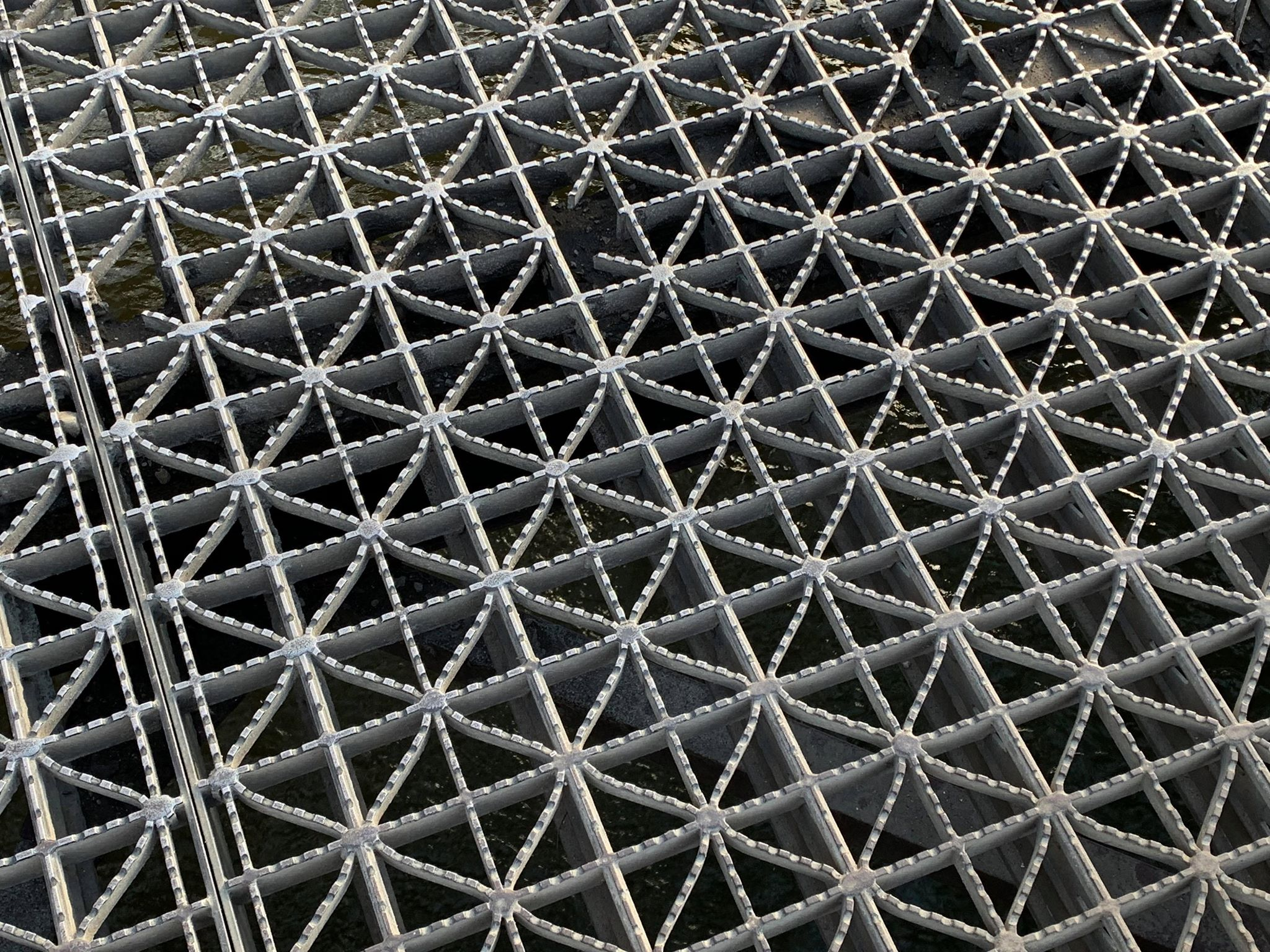 This is the metal grate on which cars drive from the Kinzie Street Bridge in Chicago, Illinois. Under it is the Chicago River.